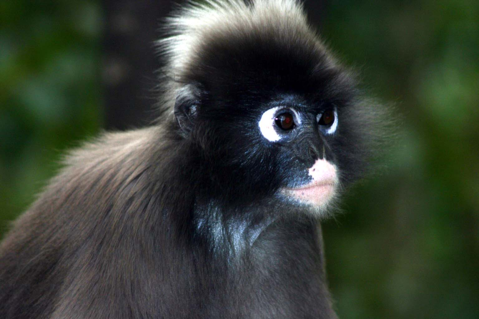 An adult male spectacled langur